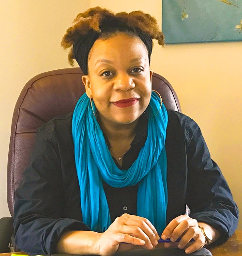 A photo of poet Parneshia Jones taken at Northwestern University in June 2018.